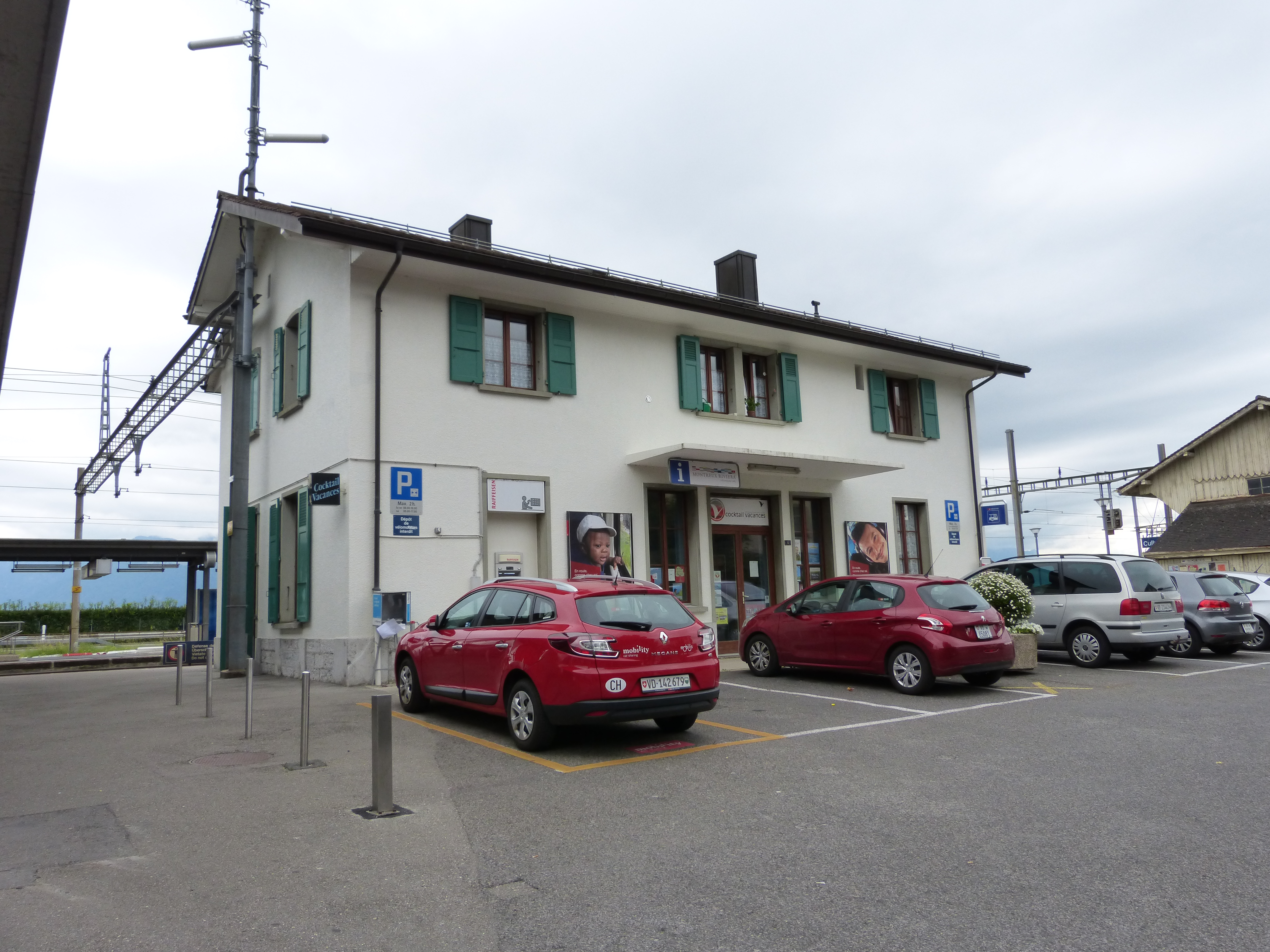 Main building of Cully railway station.